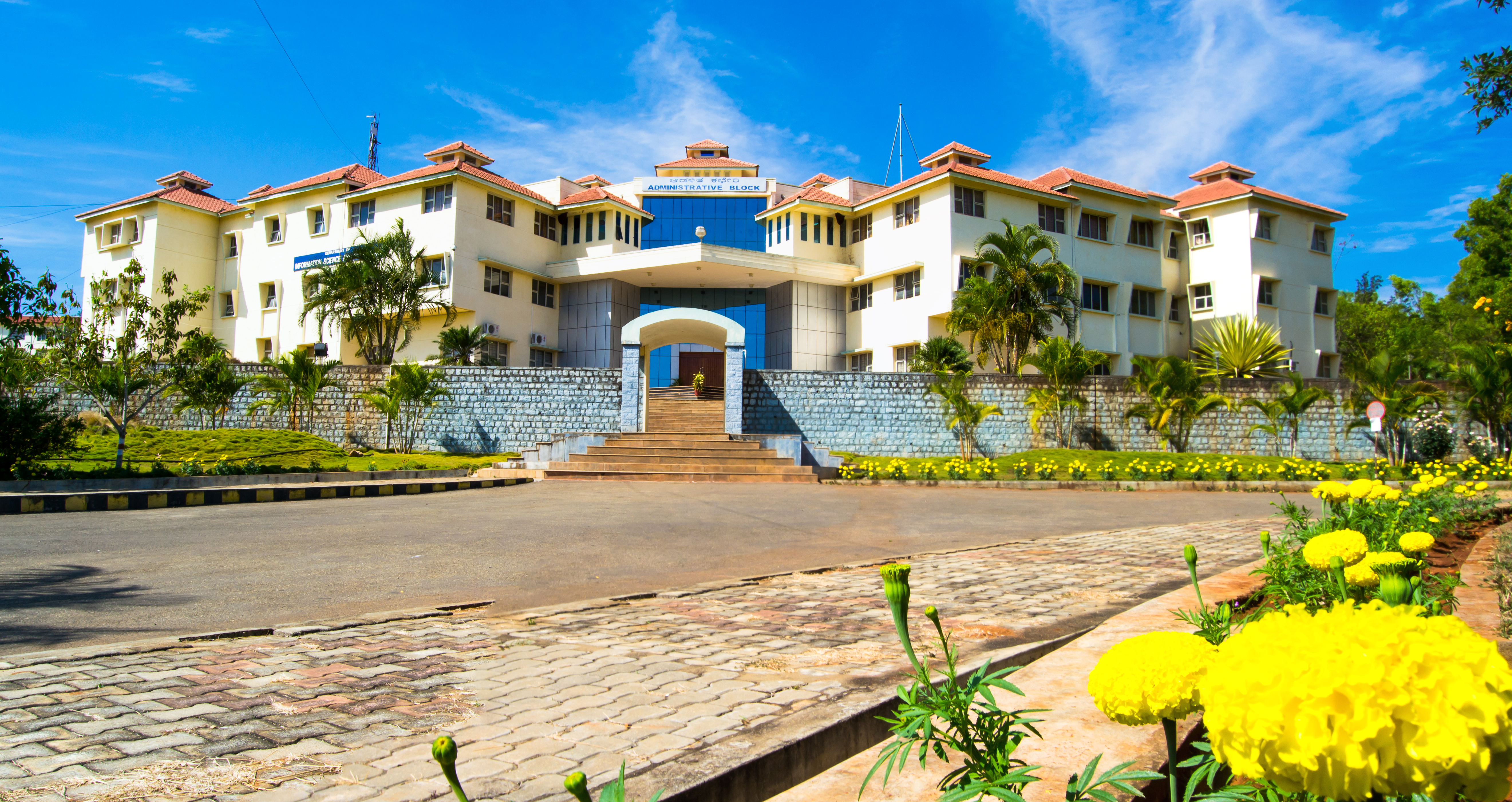 Adichunchanagiri Institute of Technology, Admin Block. Engineering college,located at Chikkamagaluru